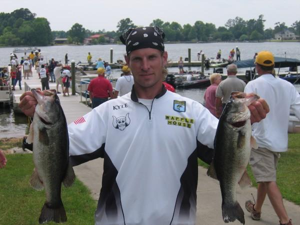 Kyle Walling is pictured here after catching 17 pounds of bass and making the top 30 cut in the Bassmaster Southern Opens at Santee Cooper.